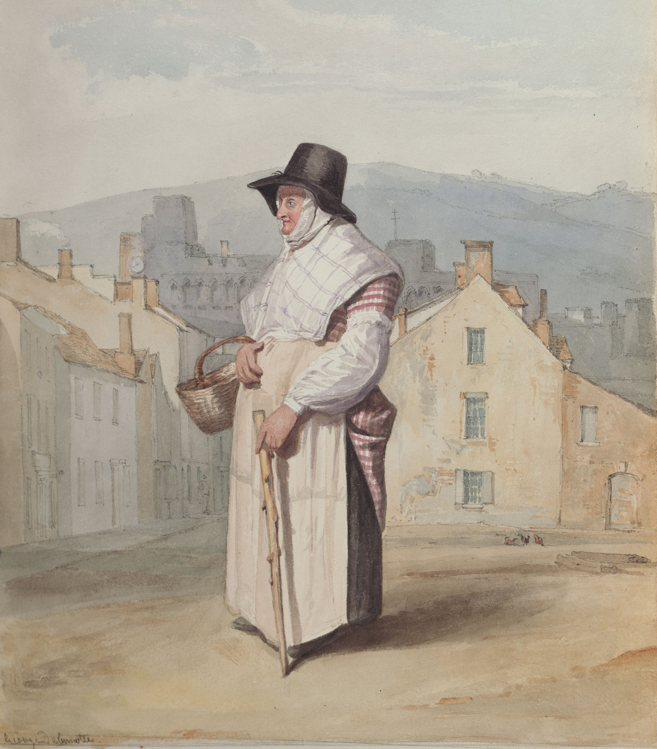 Welsh character portraits and Welsh costume relating mainly to South Wales. Portraits include Shrimpman, Idiot, Muffin Seller, Ferryman, Preacher, Servant, Begger, Harper, Irish Haymaker, Coracleman, Fiddler, Sailor, Hostler, Scottish buskers, Cowman, Blacksmith